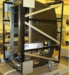 Active Rack Isolation System